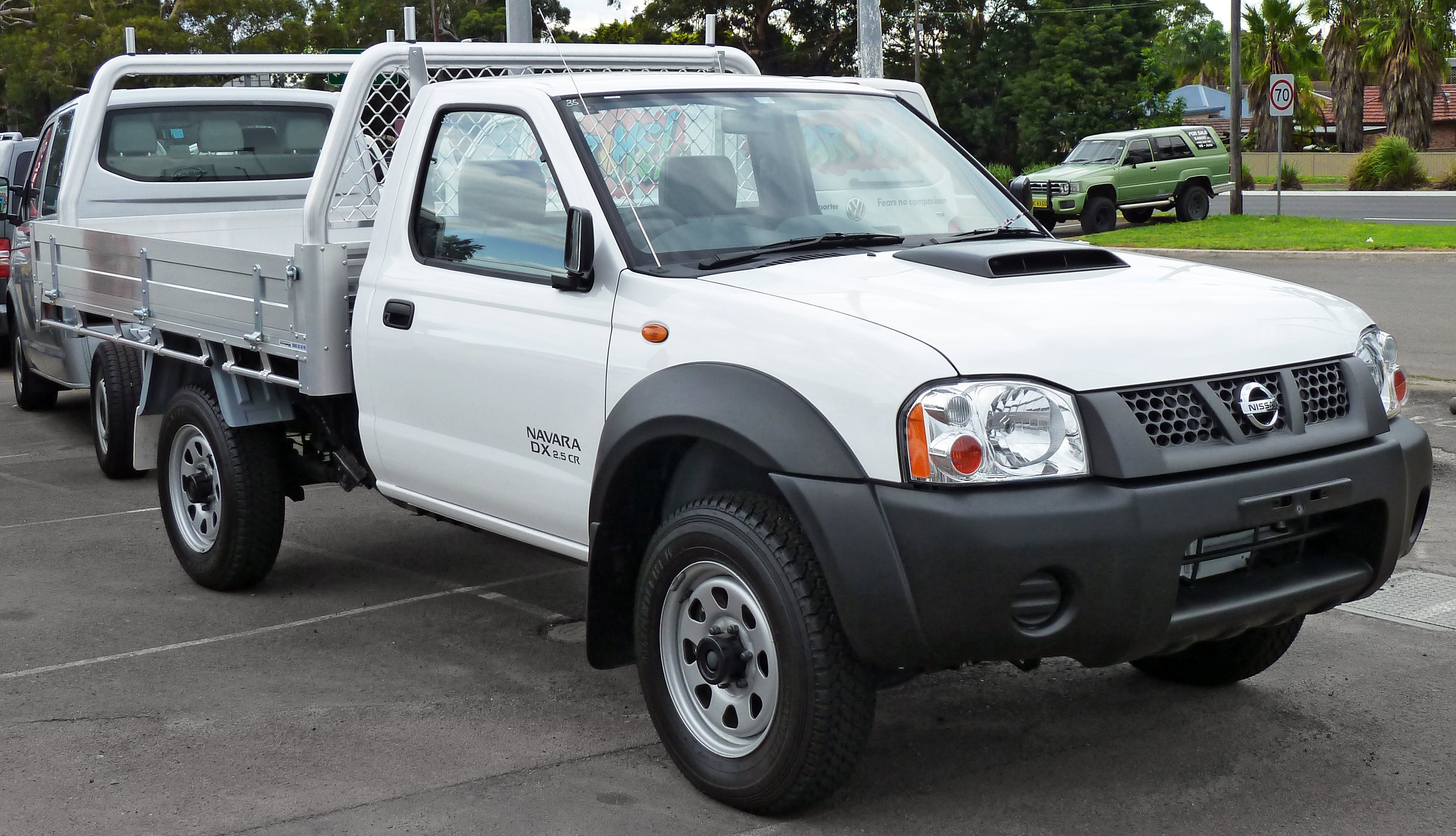 2010–2011 Nissan Navara (D22 MY2010) DX 2-door cab chassis. Photographed at McGrath Nissan Sutherland, Kirrawee, New South Wales, Australia.